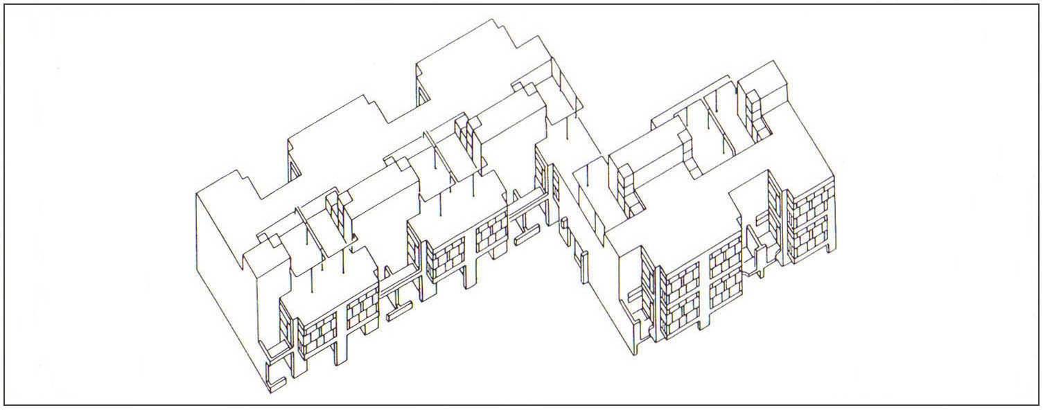 Diagoon Housing in Delft 1971 (Basic structure for participation) by Herman Hertzberger